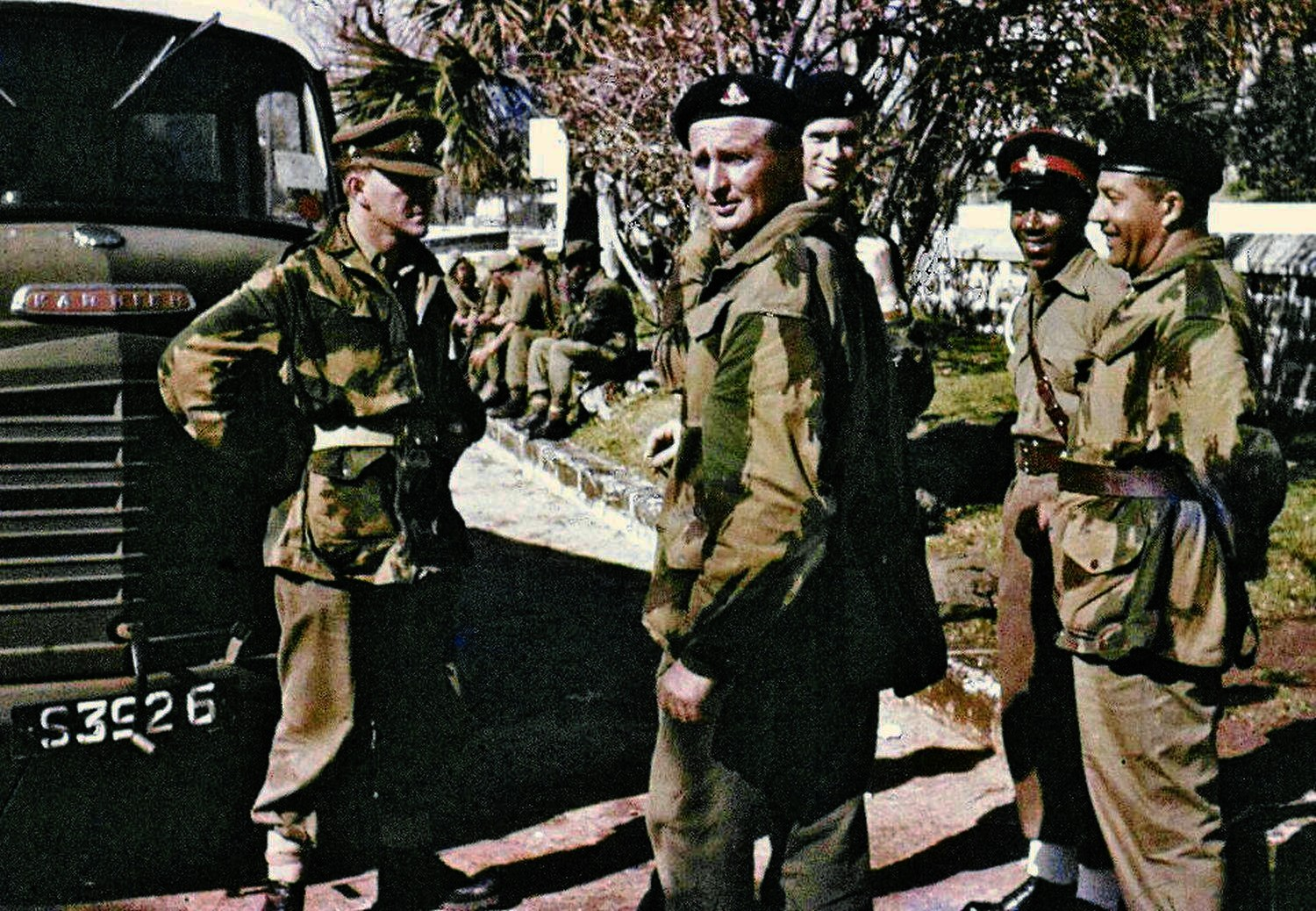 Bermuda Militia Artillery (BMA) soldiers circa 1957. At centre is Commandant Major JA Marsh, formerly of the Special Air Service and the Duke of Cornwall's Light Infantry. After the BMA amalgamated with the Bermuda Rifles in 1965, Marsh became the Second-in-Command of the new Bermuda Regiment (now the Royal Bermuda Regiment) and then the Commanding Officer with the rank of Lieutenant-Colonel.